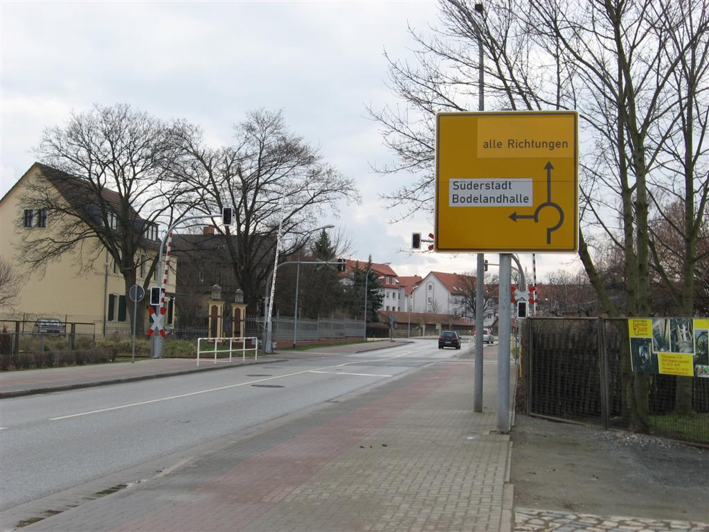 level-crossing at Quedlinburg: Gernröder Weg